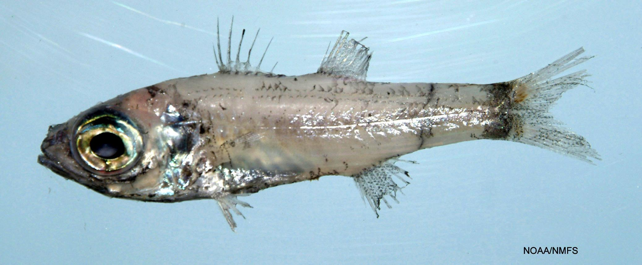 Epigonus pandionis from the Gulf of Mexico